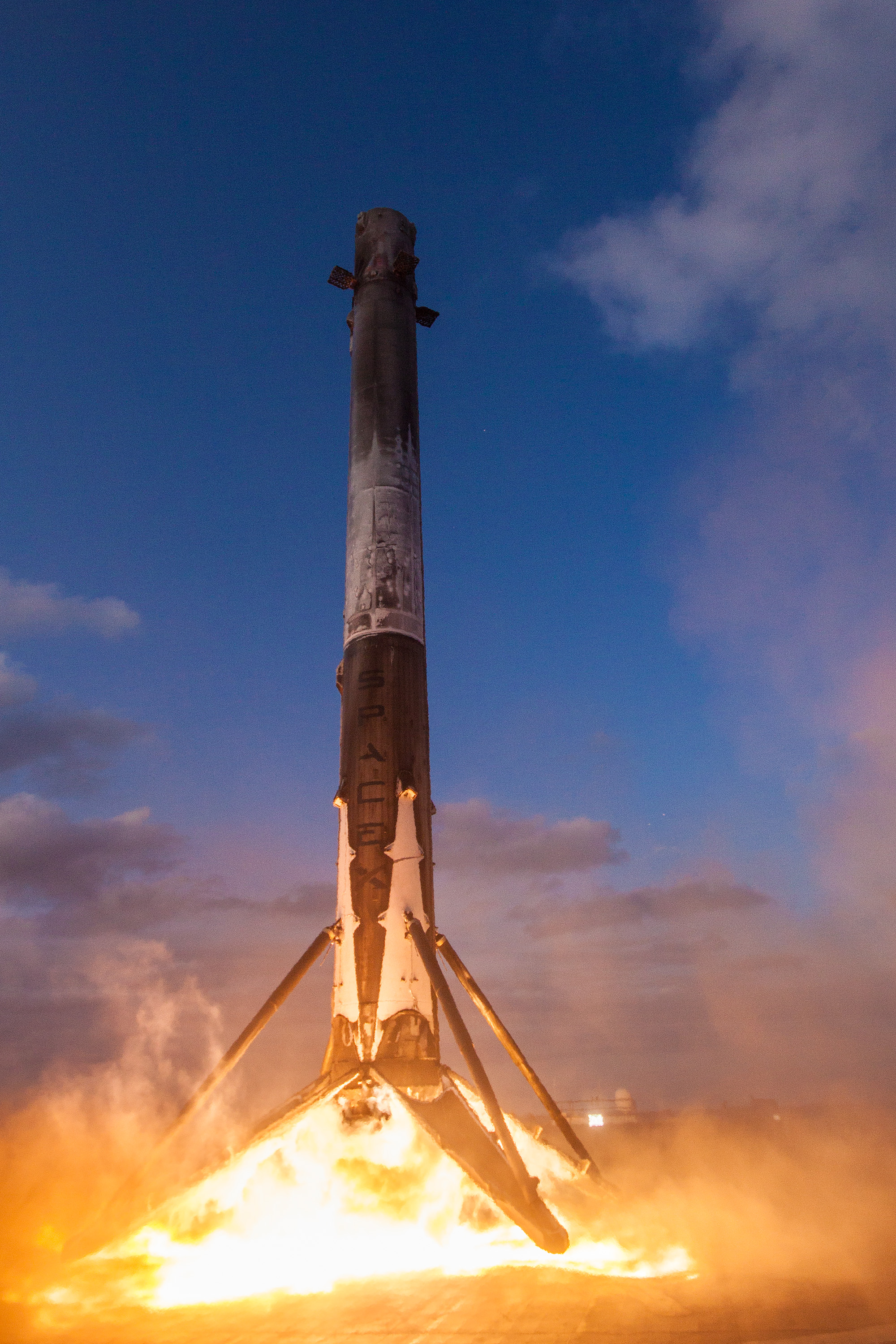 SES-10 Mission | Falcon 9 First Stage Landing